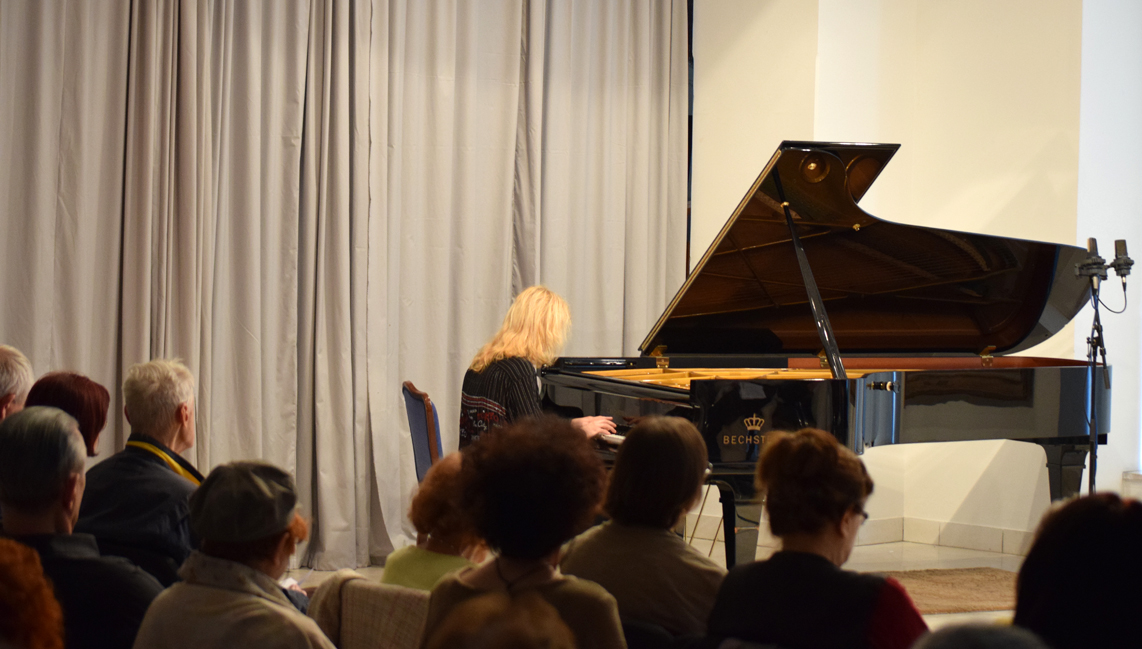 The performance of the serbian pianist Nebojša Maksimović at the Gallery of the Serbian Academy of Sciences and Arts (May 26, 2016)